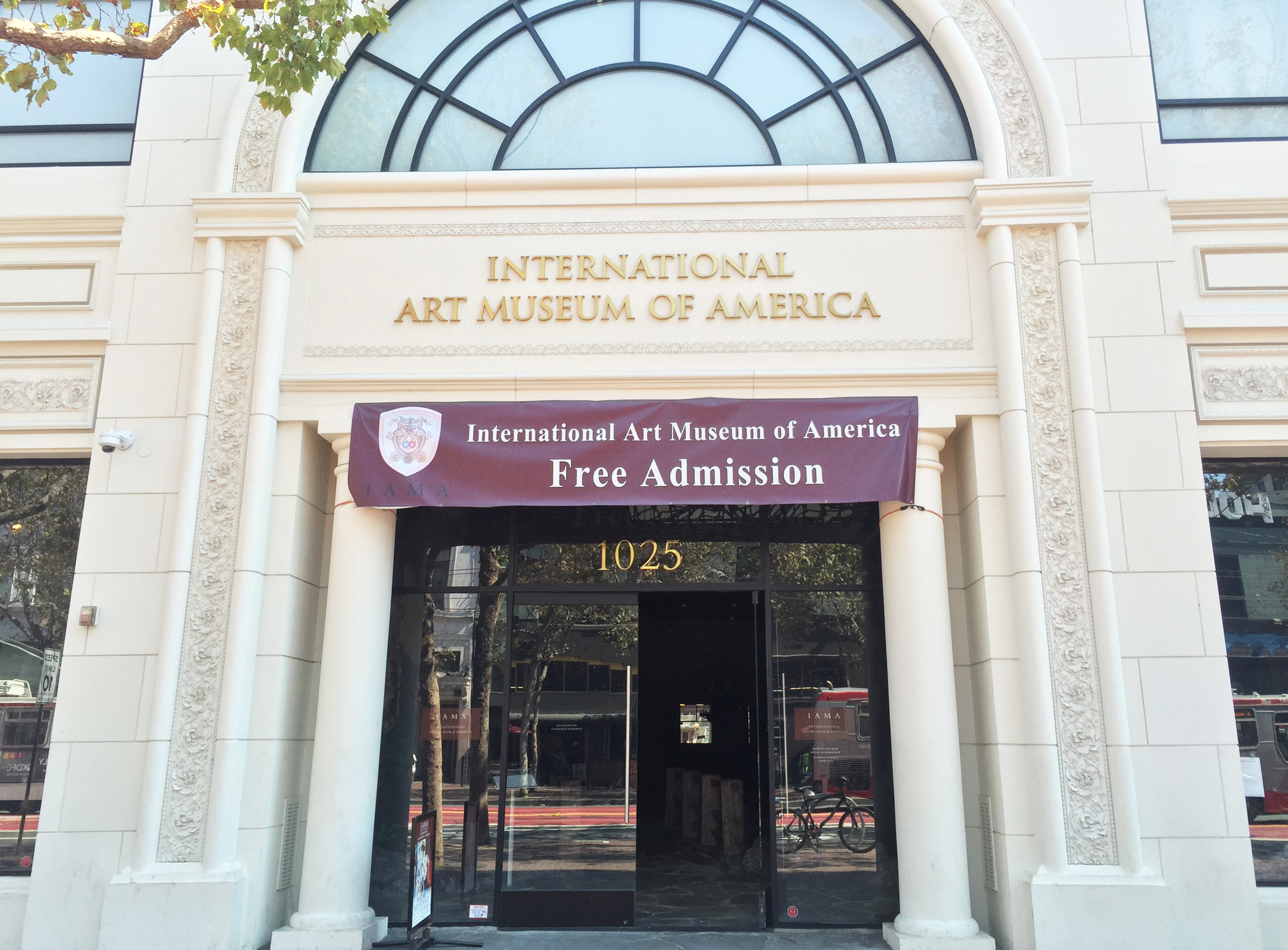 The front entrance of the International Art Museum of America.